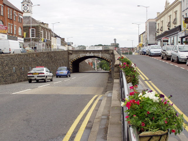 The Cut in Banbridge, County Down, Northern Ireland. Facing Ballymoney Hill in the centre of Banbridge.